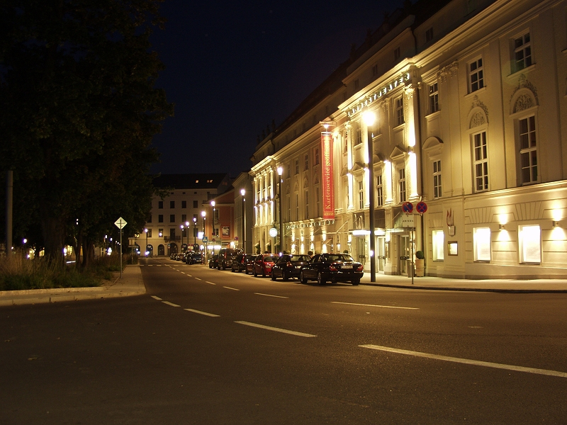 Landestheater Linz at Night